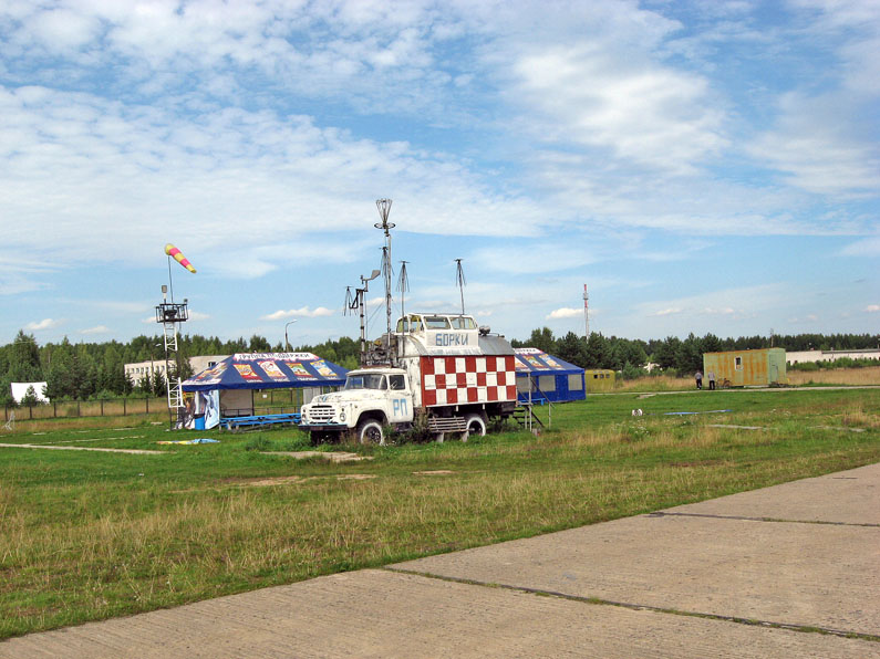 Kimry (Borki) airport tower